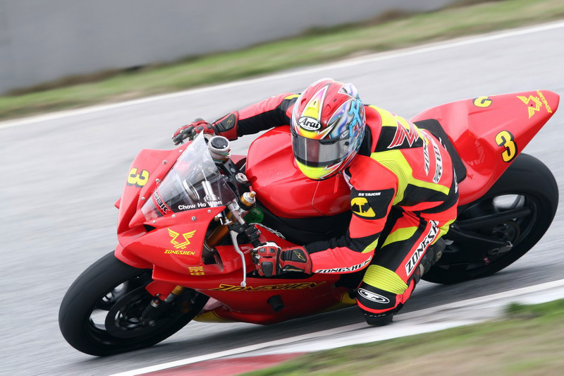 Chow Ho Wan riding a Zongshen bike in the CSBK